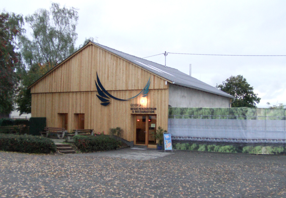 Visitor center hanging bridge Geierlay, Mörsdorf (Hunsrück)